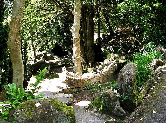 Holden Park - Oakworth This cave structure etc is artificially created on land previously owned by Sir Isaac Holden (1807-1897), textile entrepreneur, inventor and M.P.